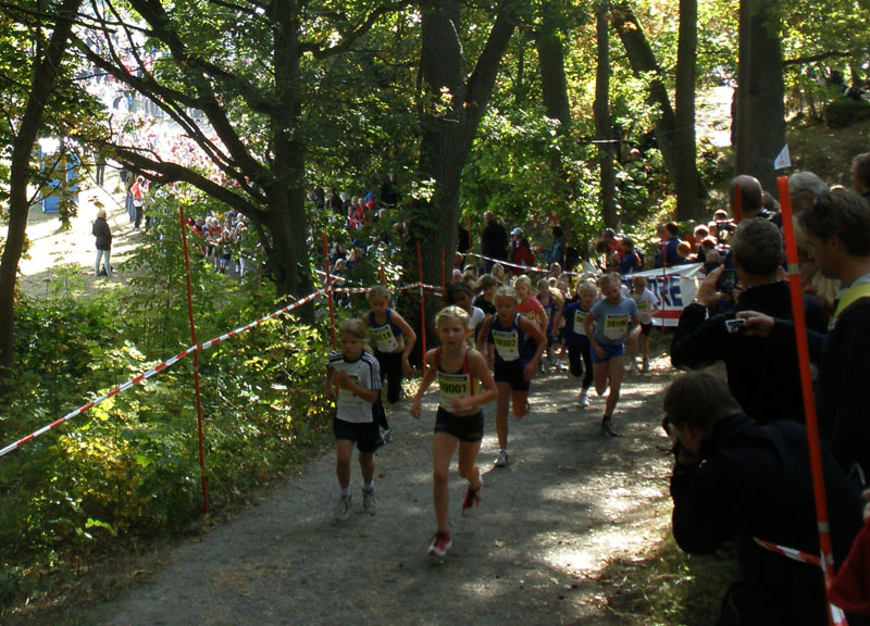 Picture from Lidingöloppet 2009, girls 9 years old